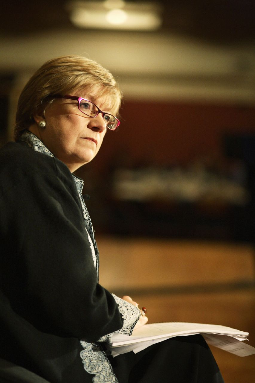 British journalist and writer Polly Toynbee, pictured at the "National Poverty Hearing" at Westminster; December 2006.National Poverty Hearing: Polly Toynbee